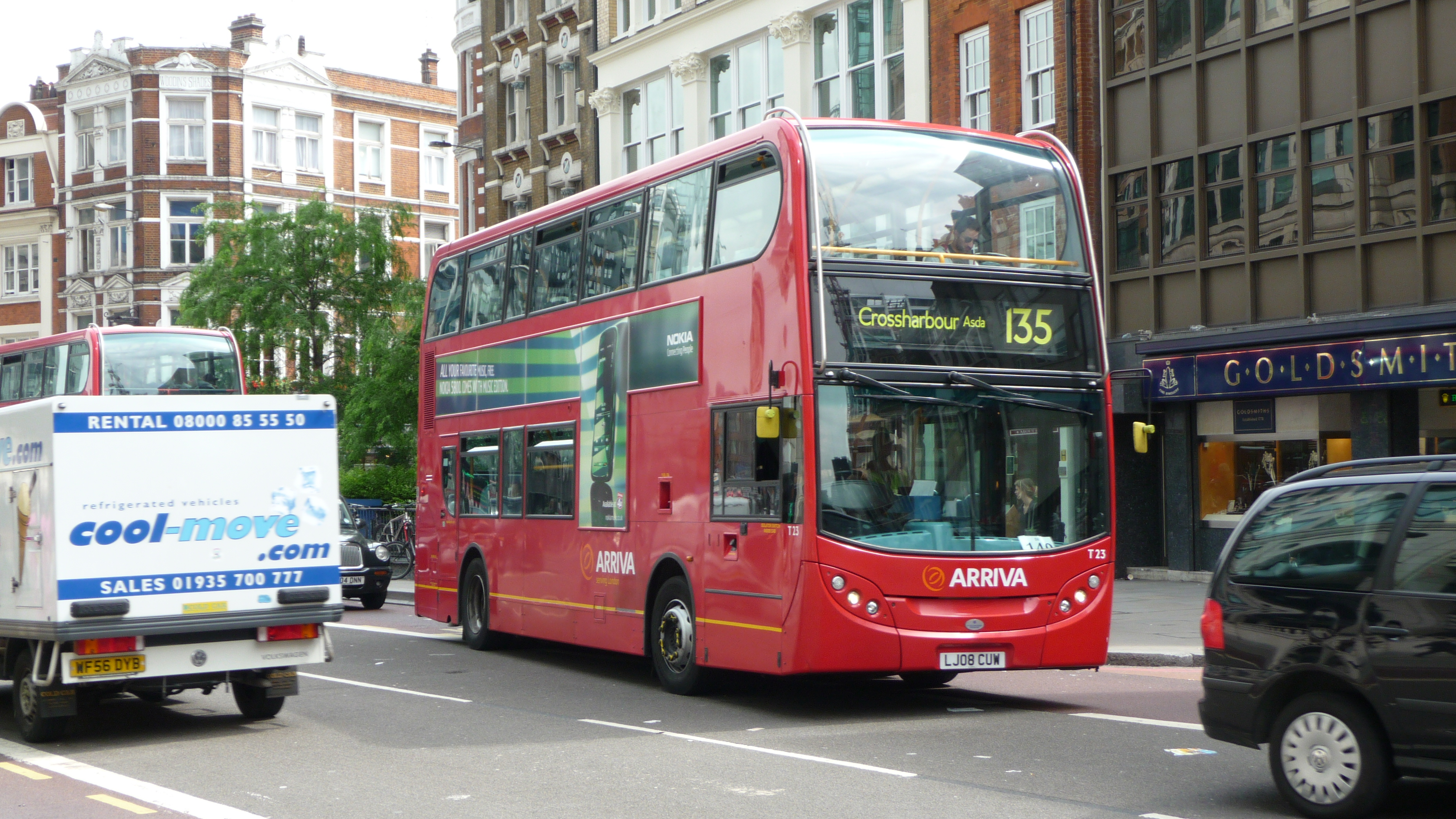 Arriva London North T23 (LJ08 CUW), an Alexander Dennis Enviro400, in Bishopgate, City of London, on route 135.